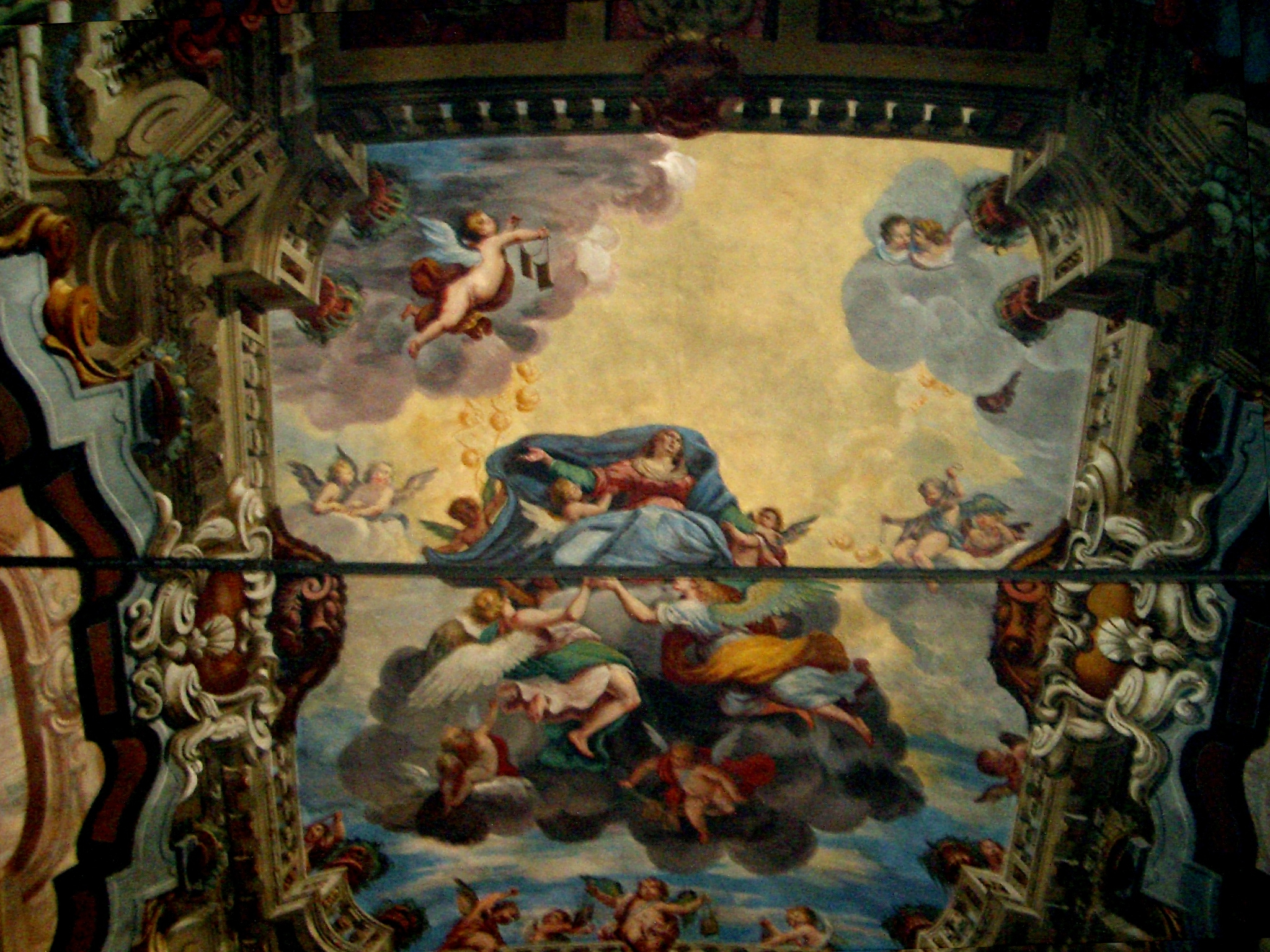 Lugano, San Rocco church, Assumption of Mary, by Marco Antonio Pozzi, 1676-77